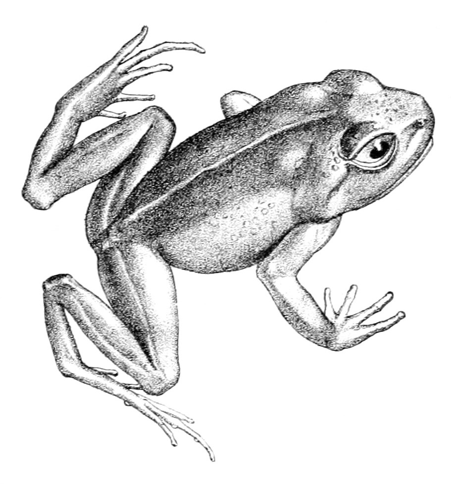 Borborocoetes coppingeri = Alsodes monticola